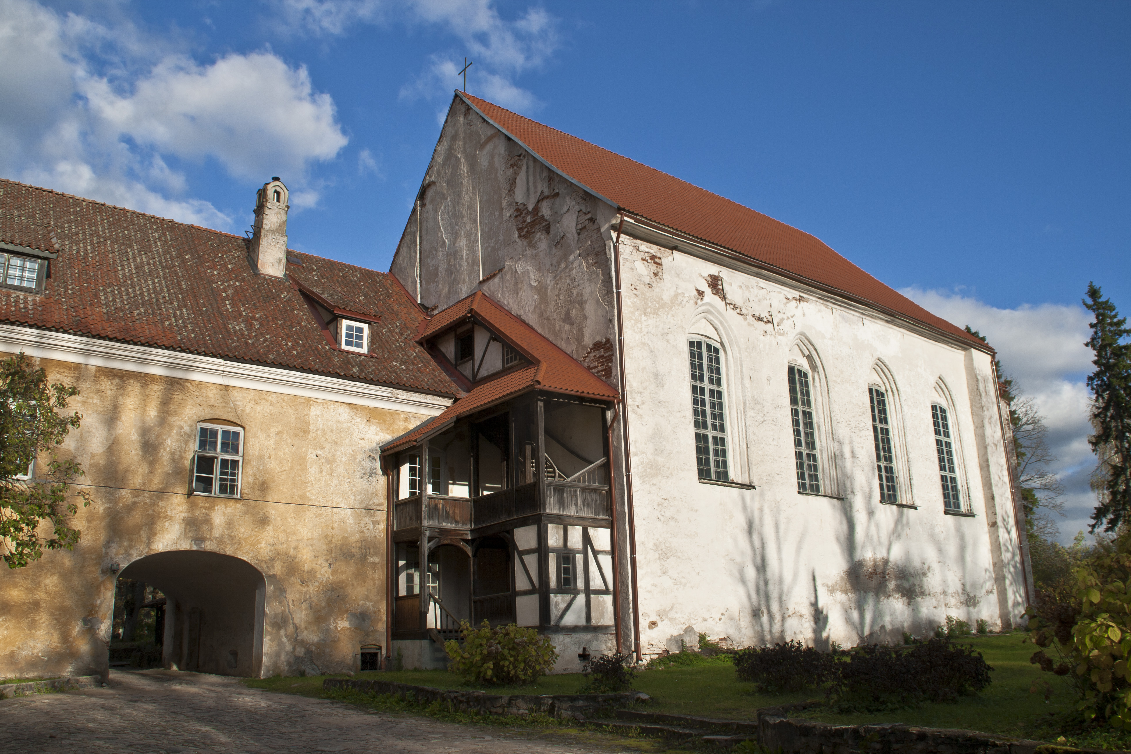 Straupe Evangelical Lutheran ChurchLatviešu: Straupes evaņģēliski luteriskā baznīca